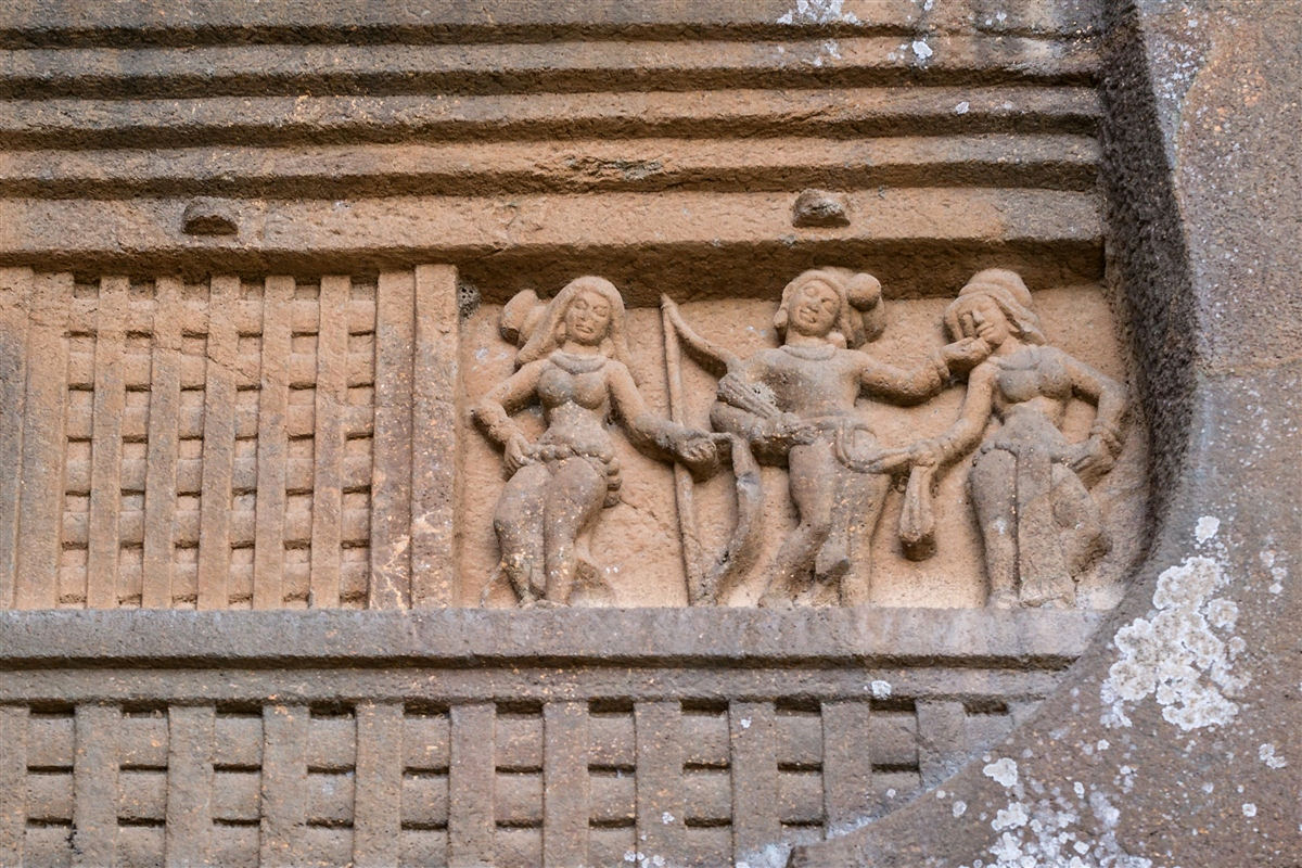 Kondana caves chaitya facade detail